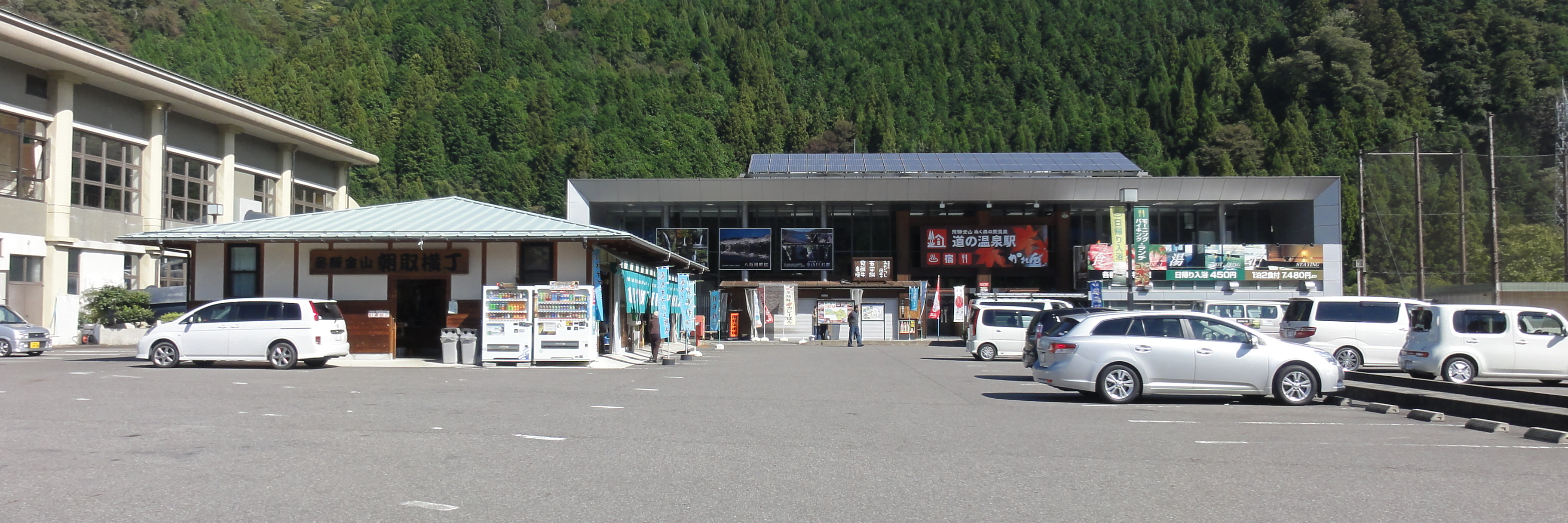 Road to station Hida-Kanayama Nukumorinosato hot spring,Gifu prefecture,Japan